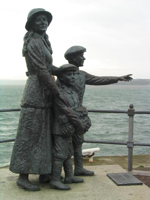 Statue of Annie Moore This is located outside the Cobh Heritage Centre. Annie Moore was the first emigrant to be registered at Ellis Island, New York. The statue was unveiled by Irish president Mary Robinson in 1993. There is a similar statue on Ellis Island.